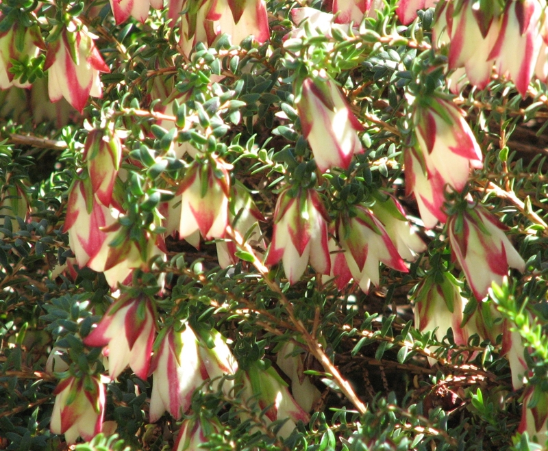 Darwinia macrostegia, Wilson Botanic Park, Berwick, Victoria, Australia